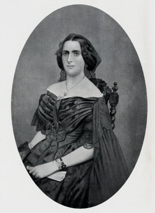 Norwegian baroness Juliane Cathrine Wilhelmine Wedel Jarlsberg (1818–72)